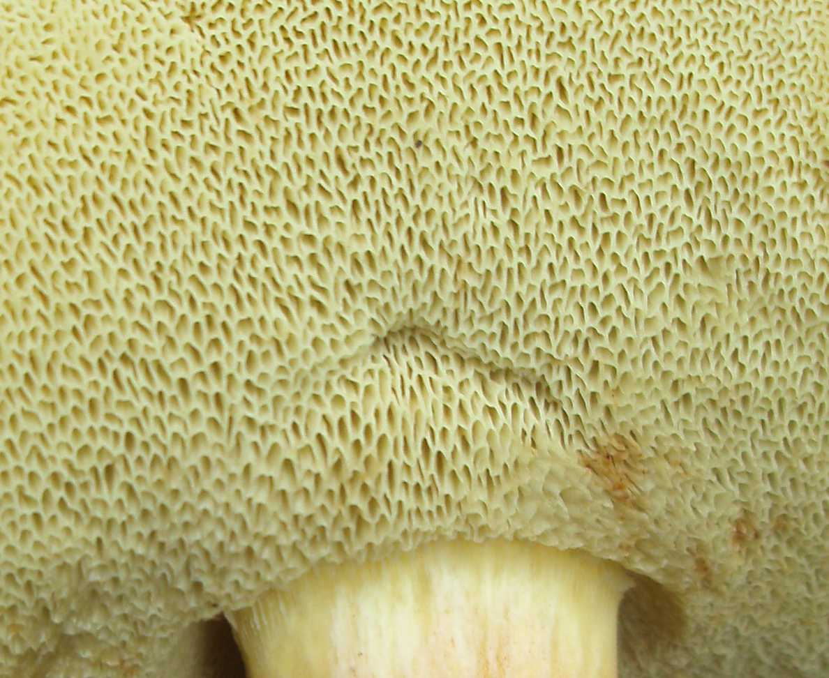 Pores of Xerocomus badius